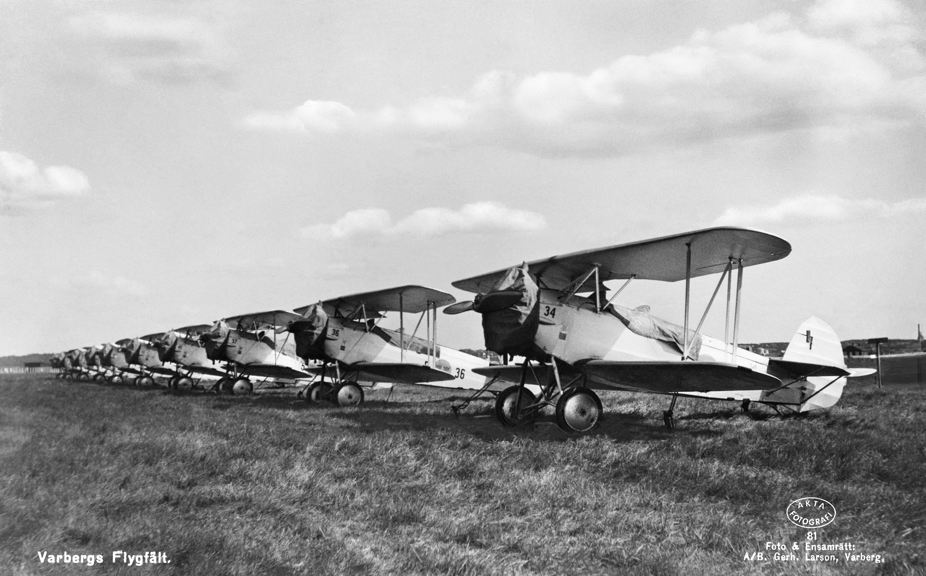 Aircraft Sk 10 in Varberg Airfield. Sk 10 was a Swedish version of the German plane Raab-Katzenstein RK-26 Tigerschwalbe, and was produced by ASJA in Linköping. Flygplan Sk 10 på Varbergs flygfält. Sk 10 var en svensktillverkad version av det tyska flygplanet Raab-Katzenstein RK-26 Tigerschwalbe, och tillverkades av ASJA (AB Svenska Järnvägsverkstädernas Aeroplanavdelning) i Linköping. Parish (socken): Varberg Province (landskap): Halland Municipality (kommun): Varberg County (län): Halland Photograph by: Gerhard Larson. Almquist & Cöster Date: 1935-1945 Format: Cliché, film with text Persistent URL: Read more about the photo database (in english)